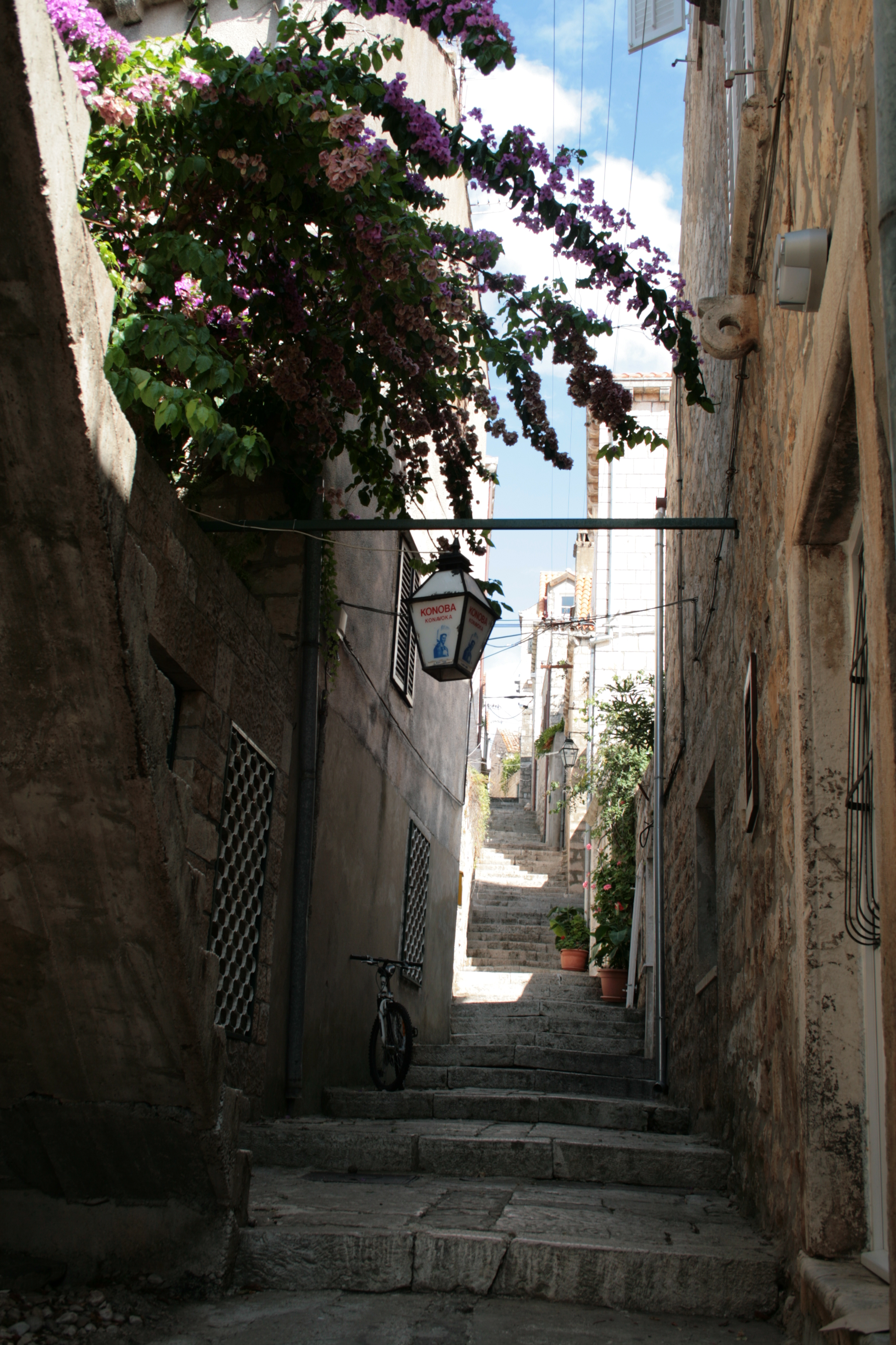 Cavtat